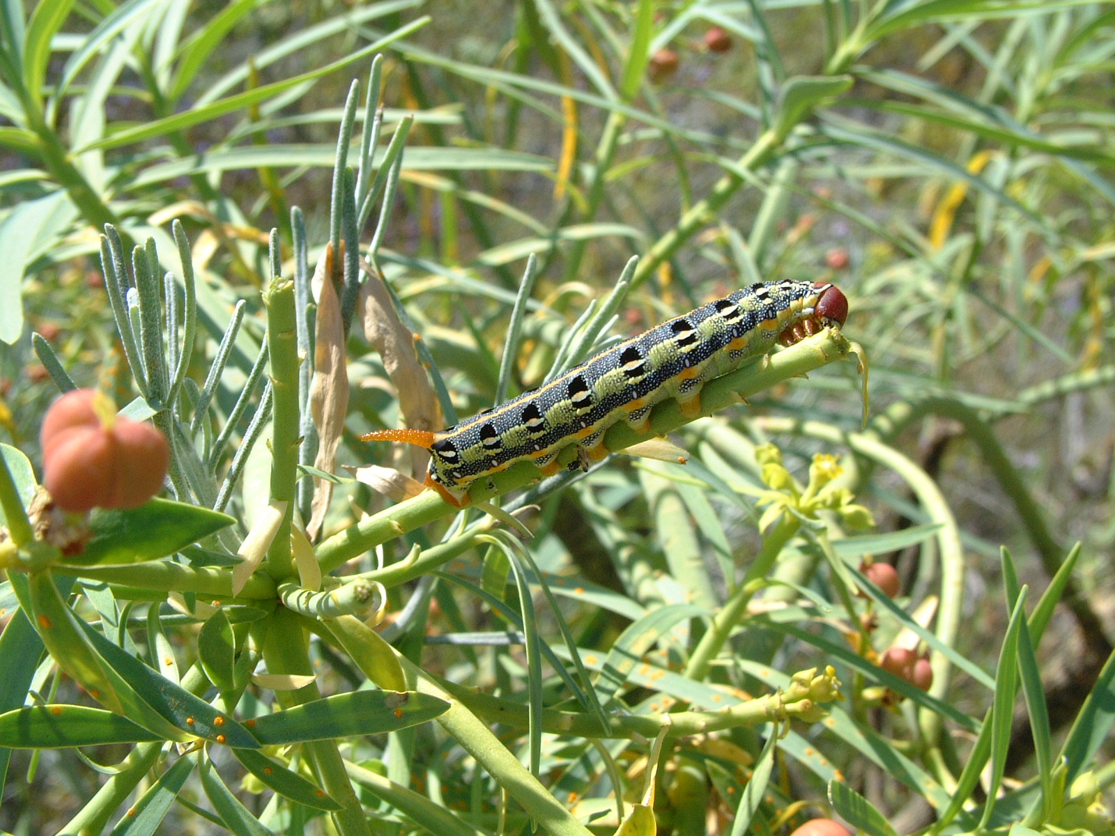 Hyles tithymali tithymali, El Time, La Palma, Canary Islands (caterpillar)